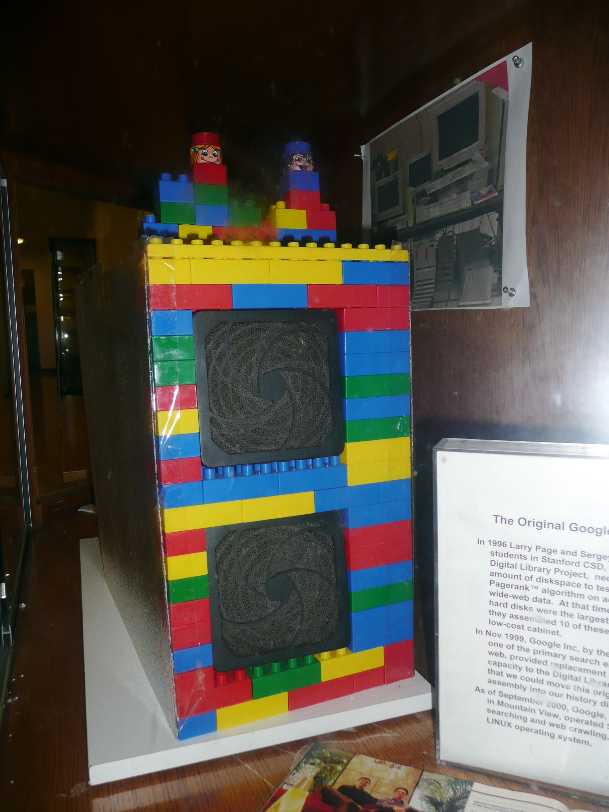 The first Google computer at Stanford. See also The Original GOOGLE Computer Storage (Page and Brin, 1996)